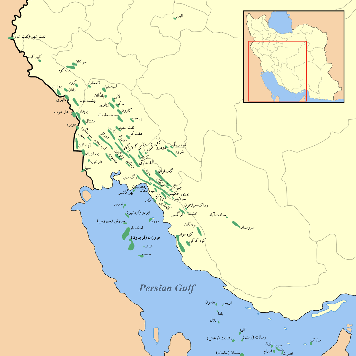 Geography of Oil reserves in south & west of Iran.